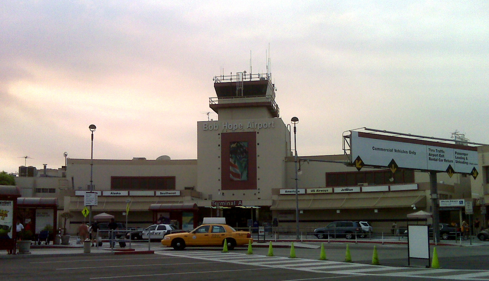 Terminal A building at Bob Hope Airport, Burbank, California